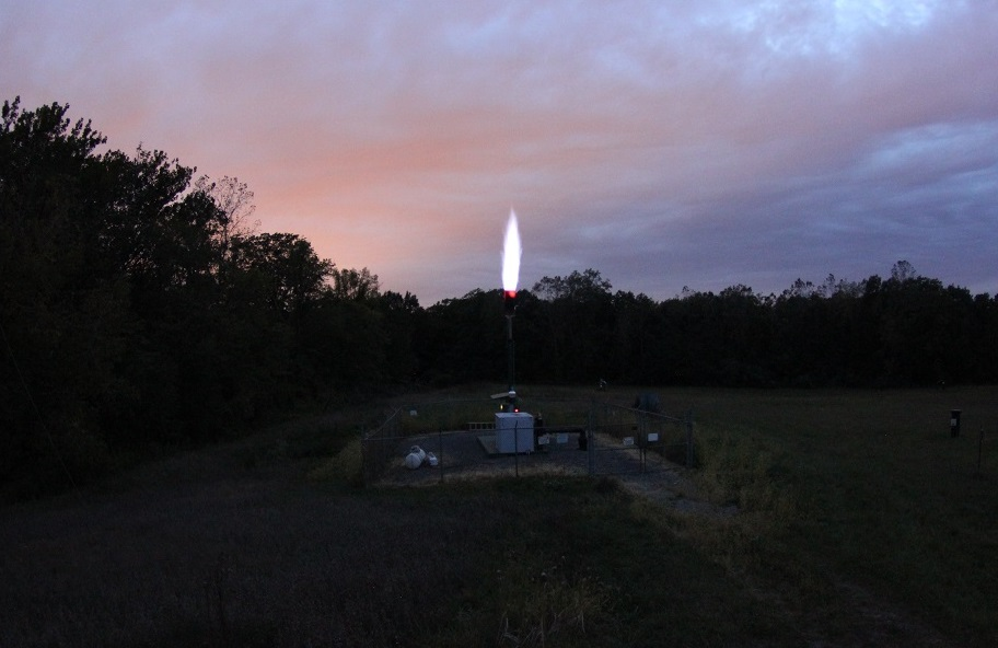 A gas flare produced by a landfill in Lake County, Ohio. The landfill was closed in 1993, but trash decomposition and gas flaring continues into 2019, and is expected to continue for many more decades.